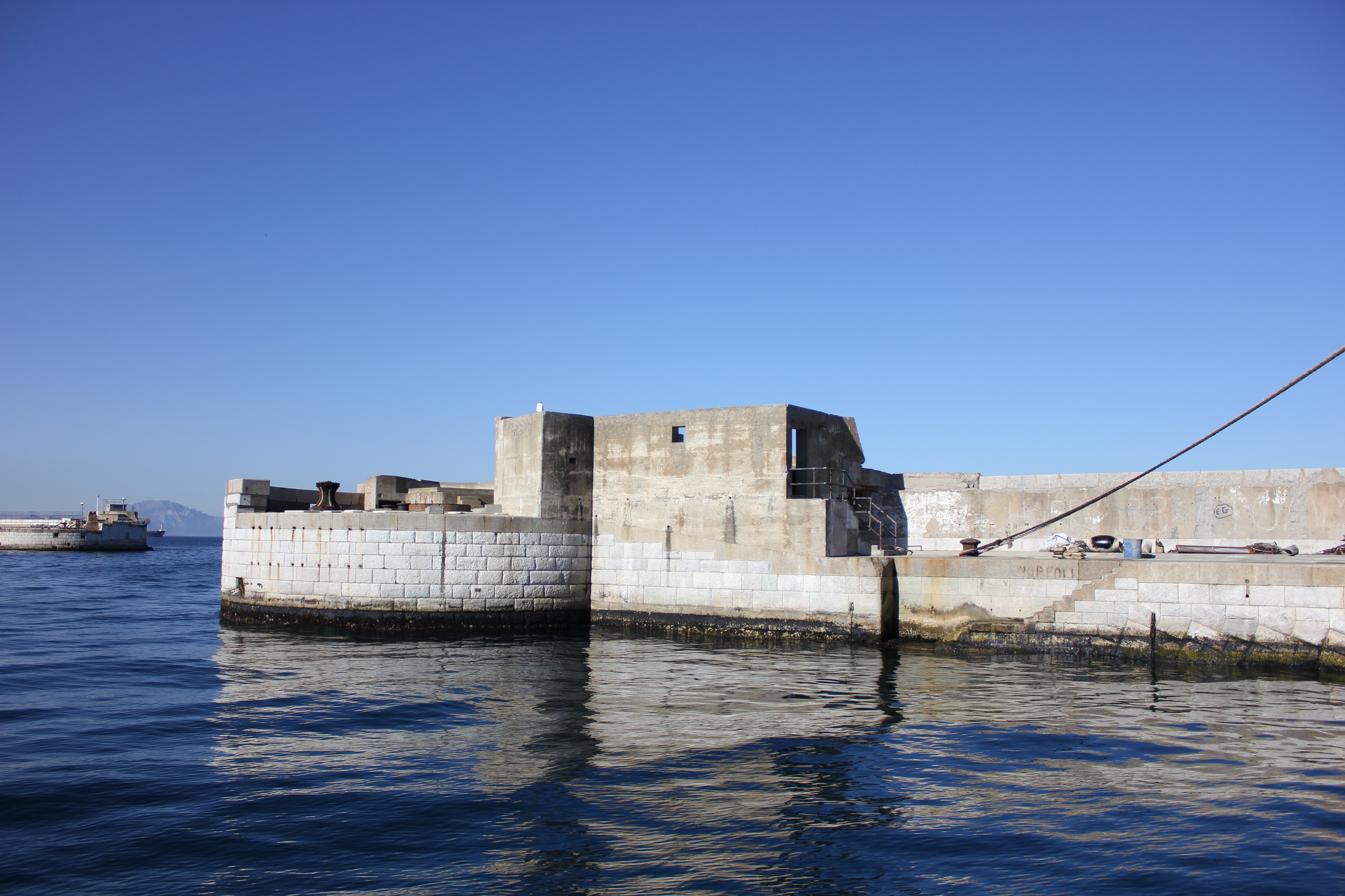 part of the port in gibraltar